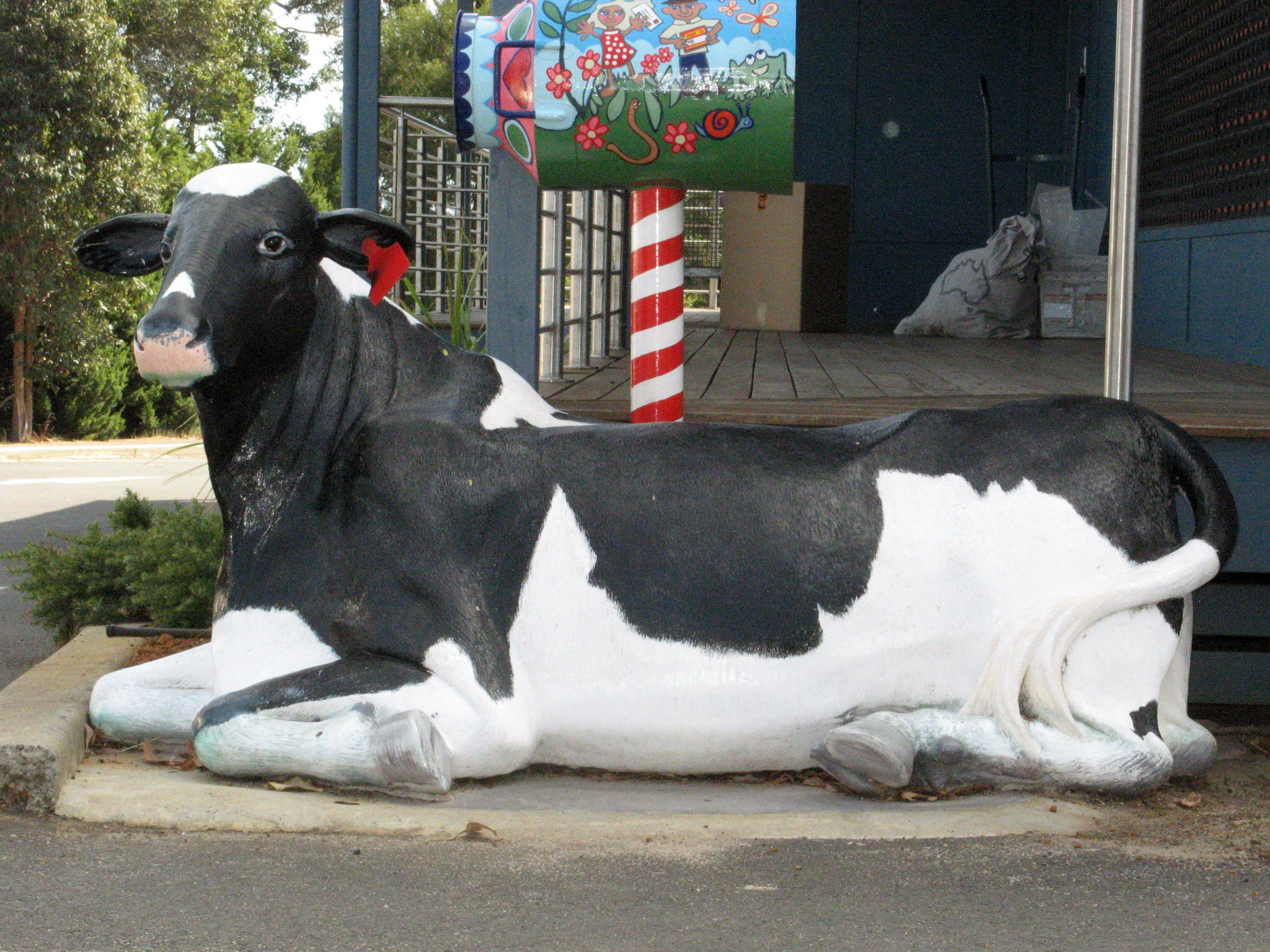 Fibreglass statue of cow in Cowaramup, Western Australia